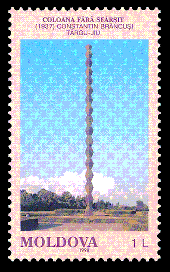 Stamp of Moldova 01